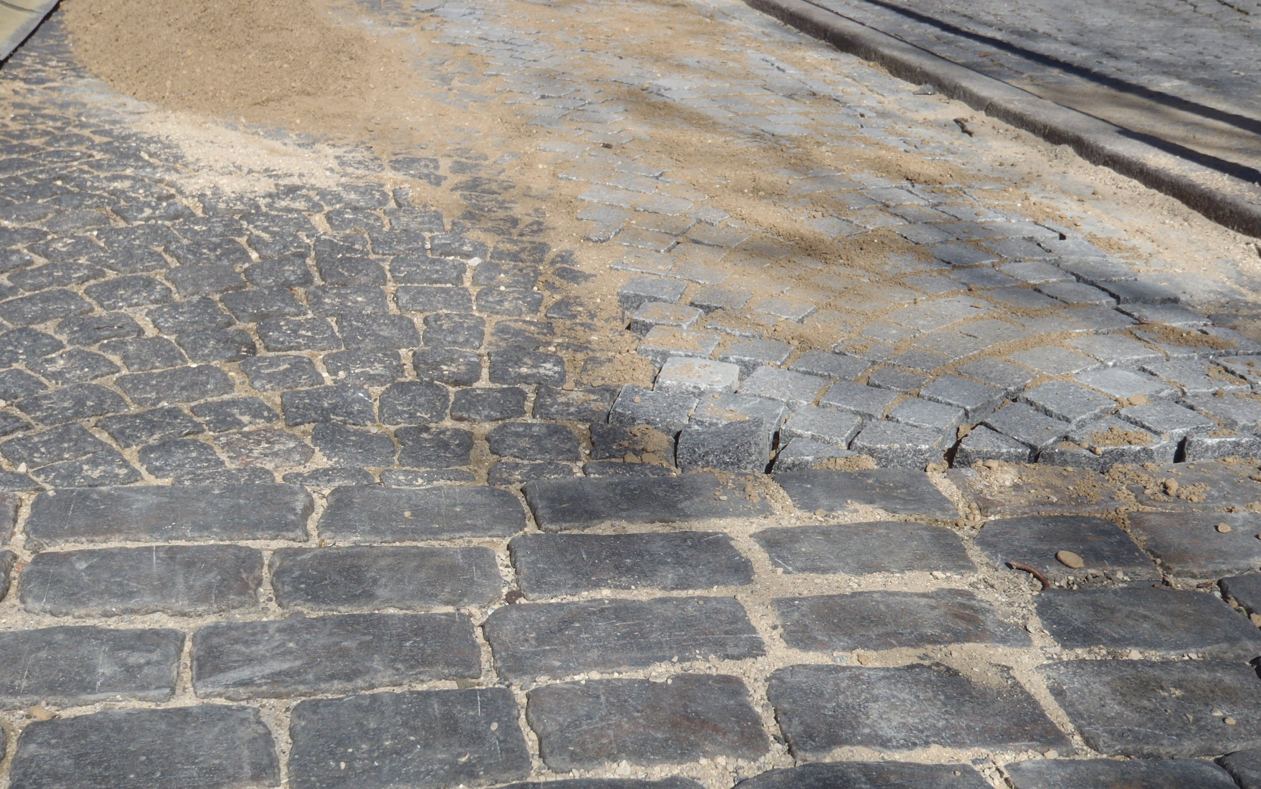 Cobbled street surface of Lyngby Hovedgade, Denmark